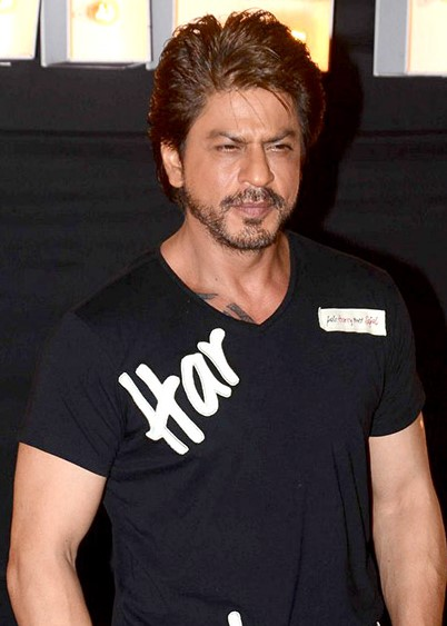 Shah Rukh Khan at Jab Harry Met Sejal new song launch 'Beech Beech Mein'.